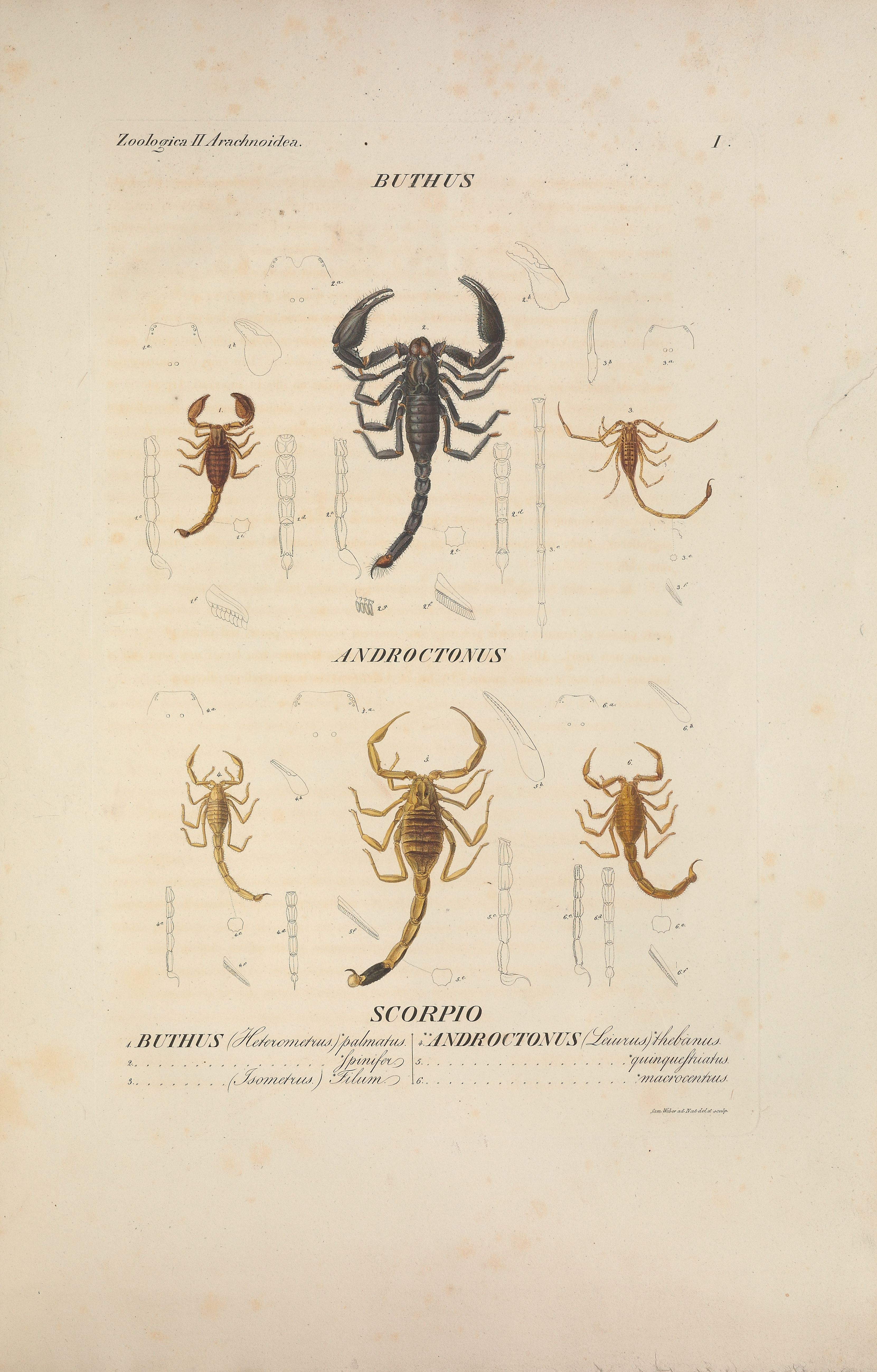 Christian Gottfried Ehrenberg: Zoologica II. Arachnoidea, Plate I: Buthus. In: Friedrich Wilhelm Hemprich und Christian Gottfried Ehrenberg: Symbolae physicae seu icones et descriptiones animalium evertebratorum sepositis insectis quae ex itinere per Africam borealem et Asiam occidentalem. Berolini: Officina Academica 1828, Decas Prima, Plate IX